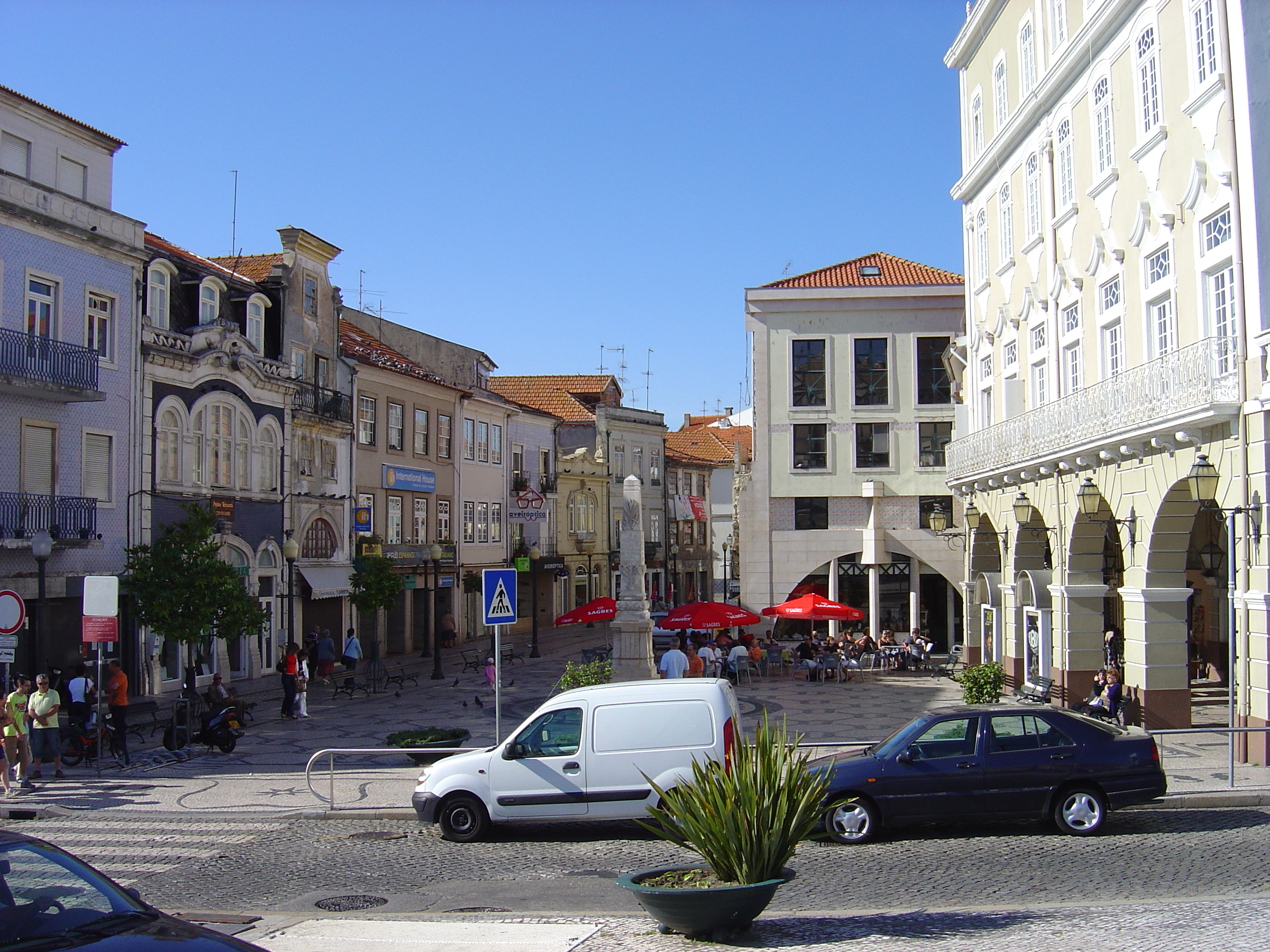 Aveiro, Portugal